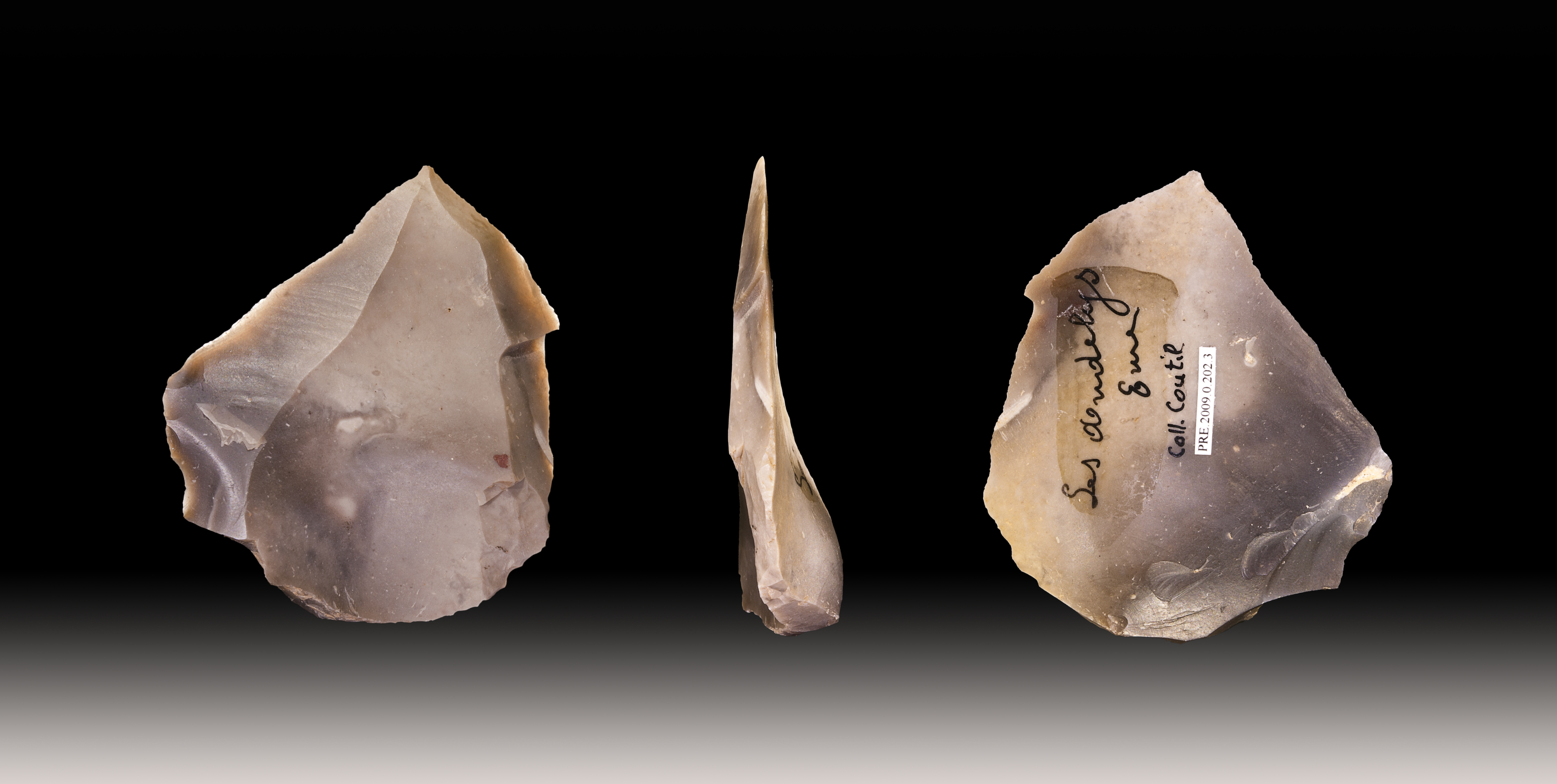 Eclat Levallois - Different views of the same specimen.